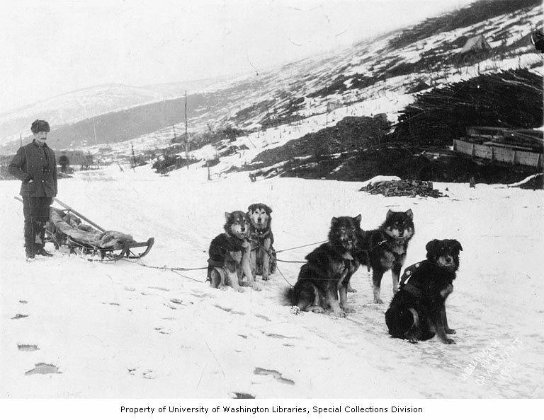 Written on image: Larss & Duclos photo, Dawson Y.T. 1900 PH Coll 306.89 Subjects (LCTGM): Dog teams--Yukon; Sleds & sleighs--Yukon Subjects (LCSH): Sled dogs--Yukon; Mushers--Yukon